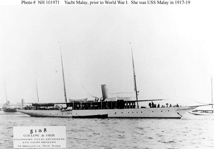 The private yacht Malay prior to her United States Navy service as the patrol vessel